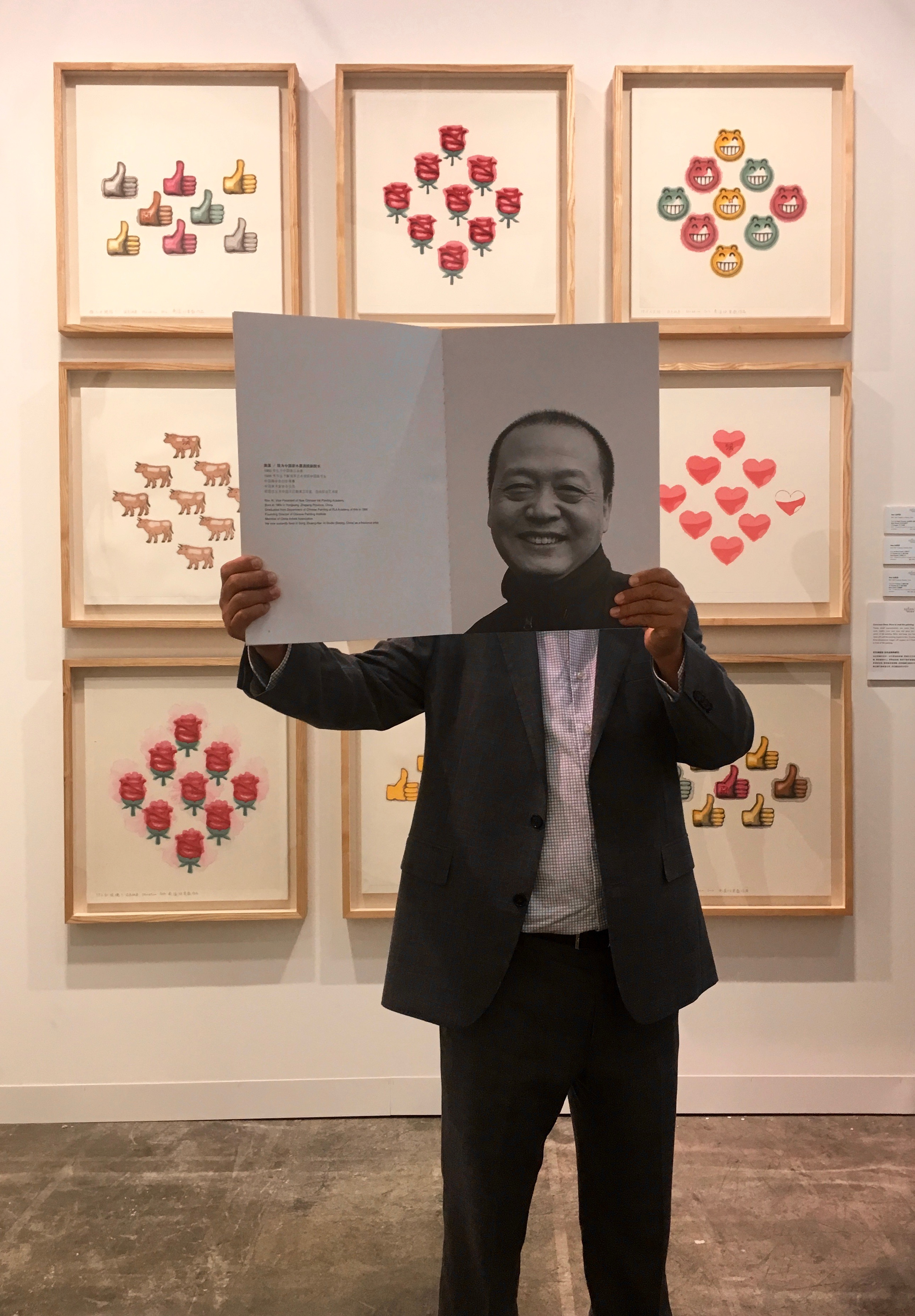 Artist, Nan Qi, holding up a portrait photo of himself at Art Basel, Hong Kong 2017